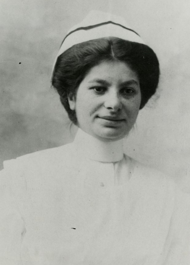 Dora Dworkin in nurses uniform [graphic material] – [1909?]. PART OF Dorothy Dworkin fonds LEVEL Item FONDS 10 ITEM 17 MATERIAL FORMAT graphic material DATE [1909?] PHYSICAL DESCRIPTION 2 photographs : b&w (1 negative) ; 18 x 13 cm or smaller SCOPE AND CONTENT Item is a copy photograph of Dora Dworkin in her nurses uniform. This may be her graduation photograph from the Medical State Board of Ohio after receiving her diploma in Midwifery in 1909. SUBJECTS Nurses Portraits REPRO RESTRICTION Copyright is in the public domain and permission for use is not required. Please credit the Ontario Jewish Archives as the source of the photograph. ACCESSION NUMBER 2005-4-5 SOURCE Archival Descriptions